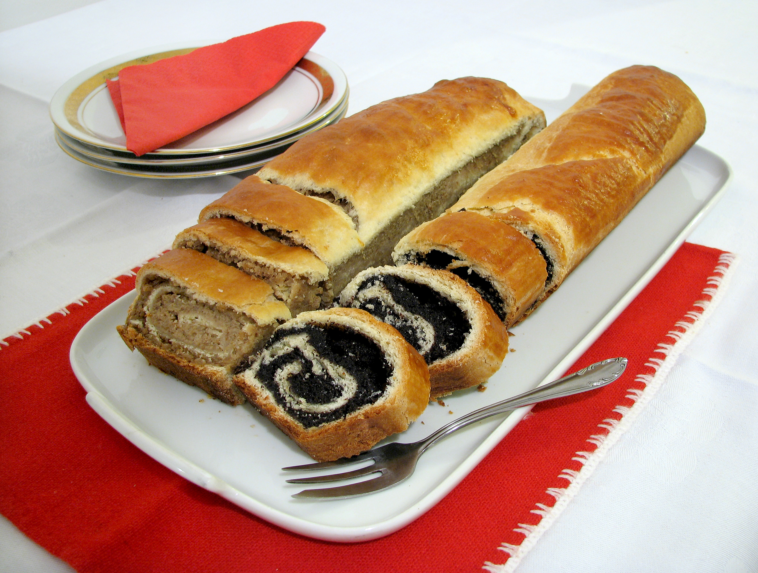 Bejgli (sometimes beigli), a Hungarian pastry, eaten at Christmas and Easter. The left one is filled with walnut, the right one with poppyseed.